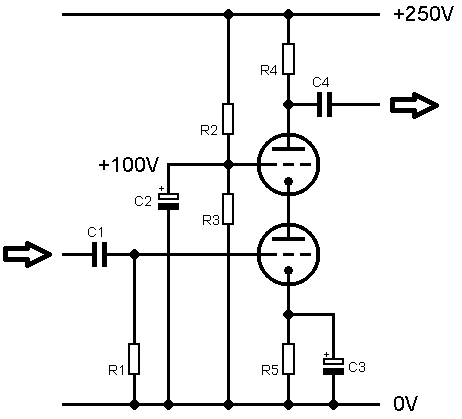 Audio triode cascode circuit with passive components